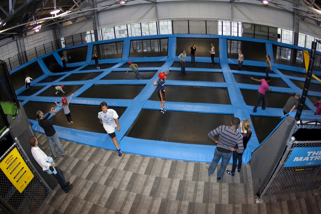 The Matrix, 42 conjoined trampolines in House of Air, a trampoline park in San Francisco, California.